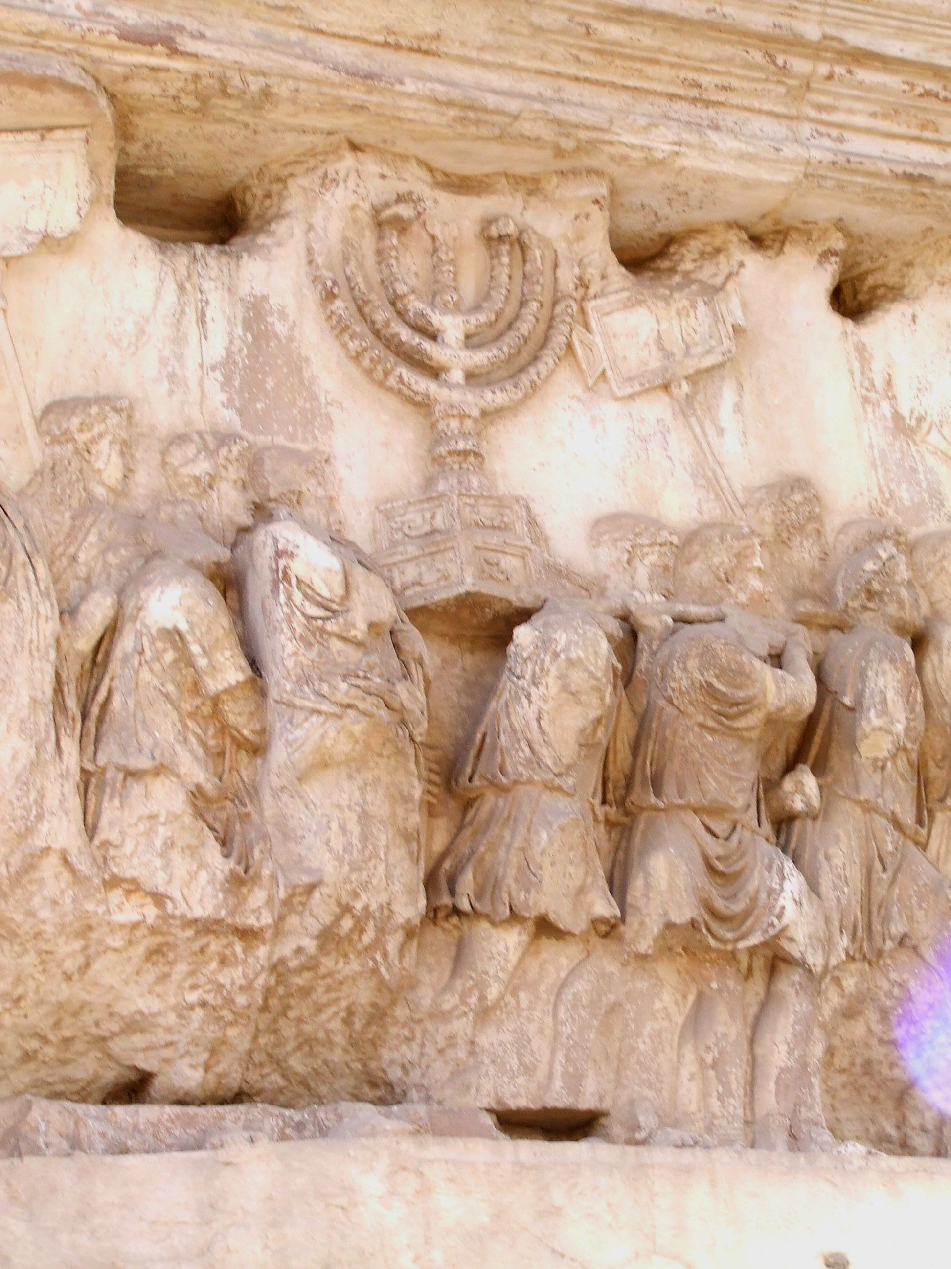 Carrying off the Menorah and other spoils from the Temple in Jerusalem depicted on a relief on the Arch of Titus in the Forum Romanum.